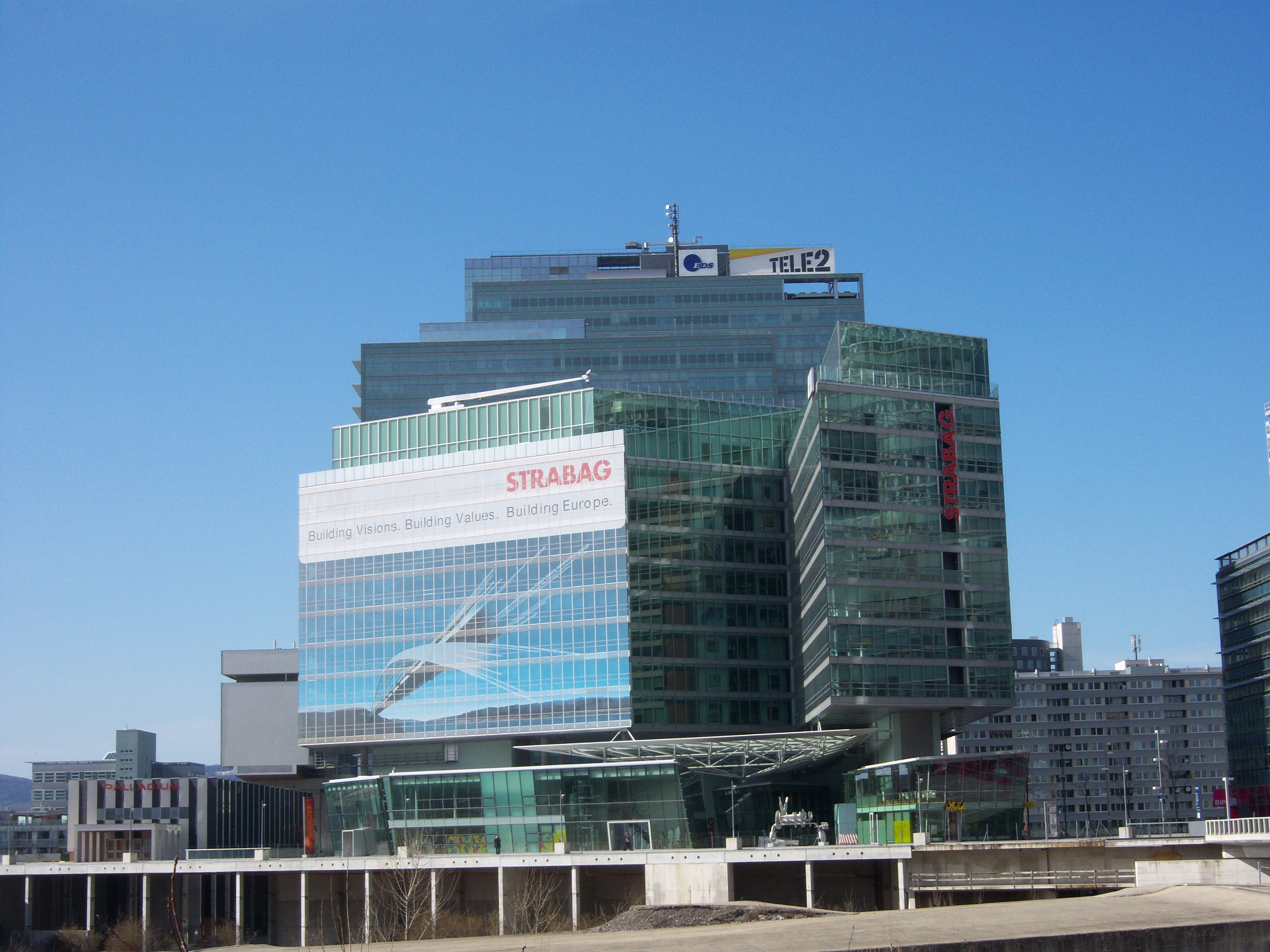 STRABAG Office